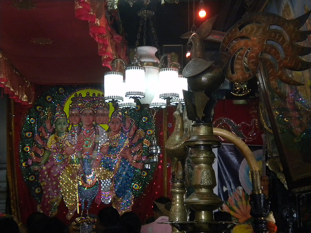 Curtain with the print of Murugan with his two wives, Tevyani and Valli. Valli on his right.